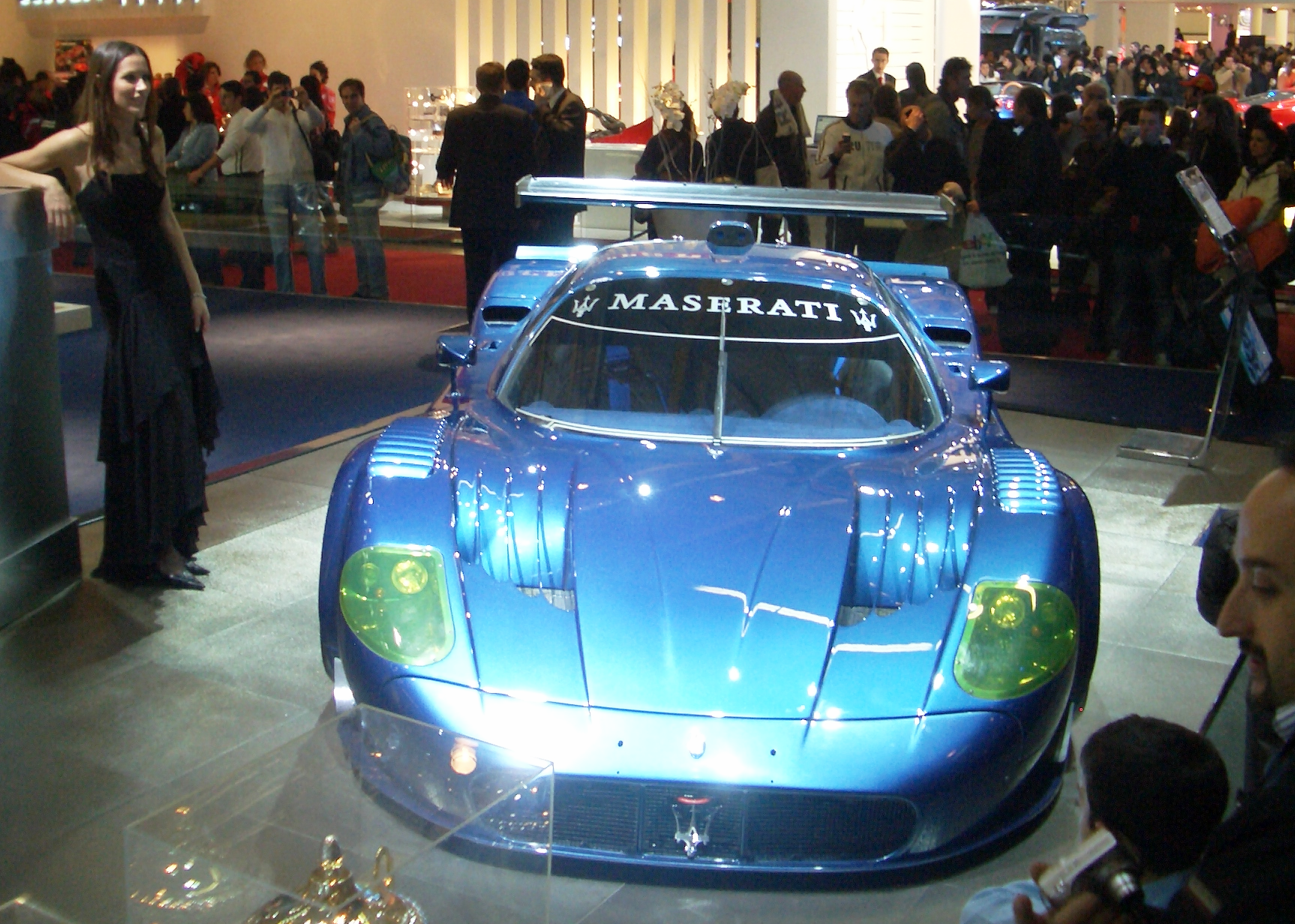 Note there is a copy of the original at the English Wikipedia which has the OTRS tagging. The original image was been licensed under the Creative Commons Attribution-ShareAlike License by the author, Fabio with Flickr account: Flickr - ori0n and personal website: w Therefore this derivative work (cropped and colour corrected) also carries the same license.